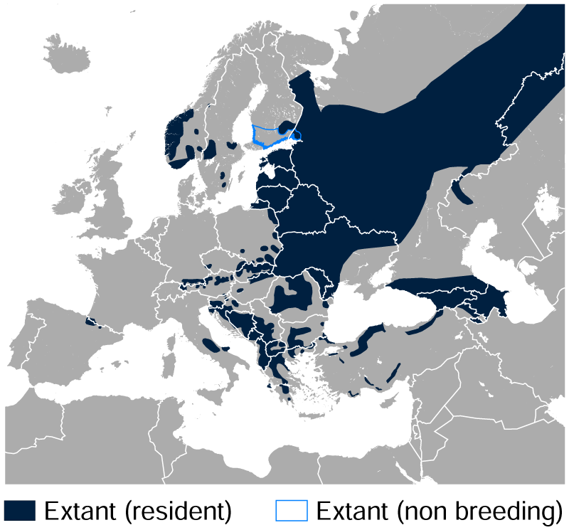 Geographical distribution of the White-backed Woodpecker Dendrocopos leucotos in Europe and western Asia. The map was created using the Generic Mapping Tools, GMT, version 5.1.2.